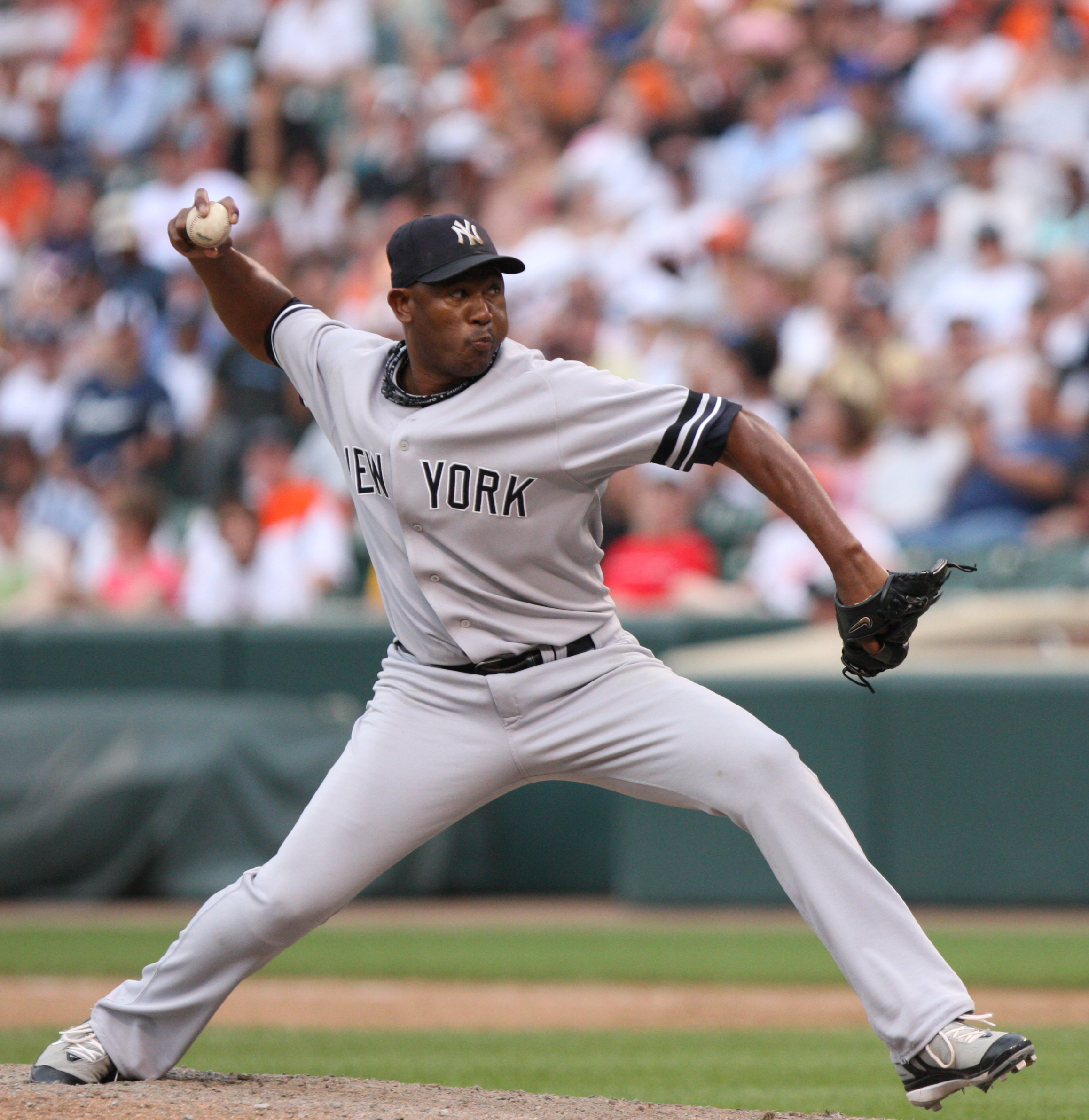 An image of baseball player Luis Vizcaíno with the New York Yankees in 2007.